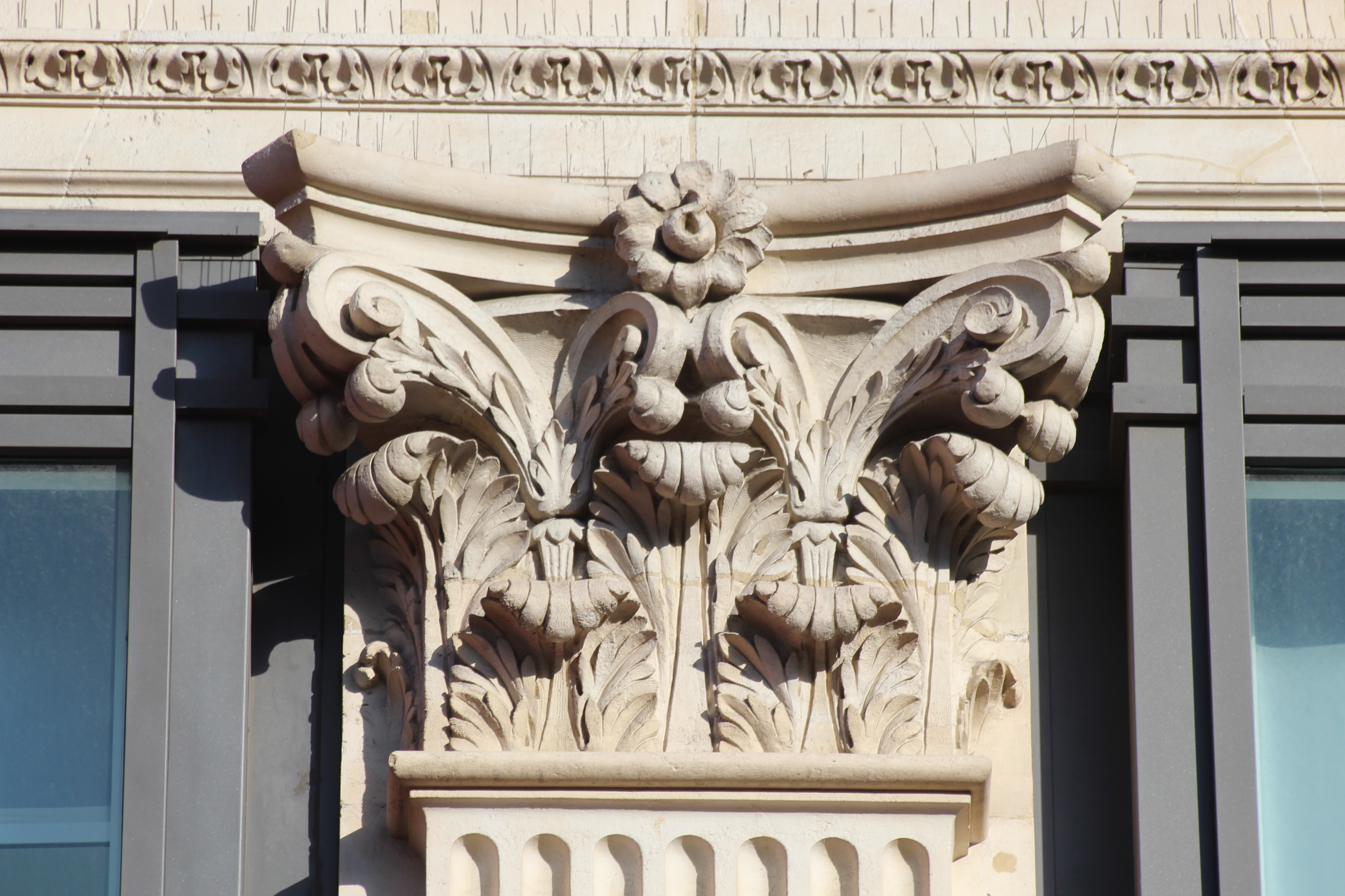 Building located 126 Rivoli street in Paris with sculptures of caryatids and atlanteans. The ground level is now occupied by a C & A store.